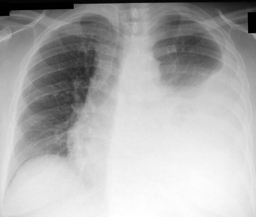 Massive Left-Sided Pleural Effusion